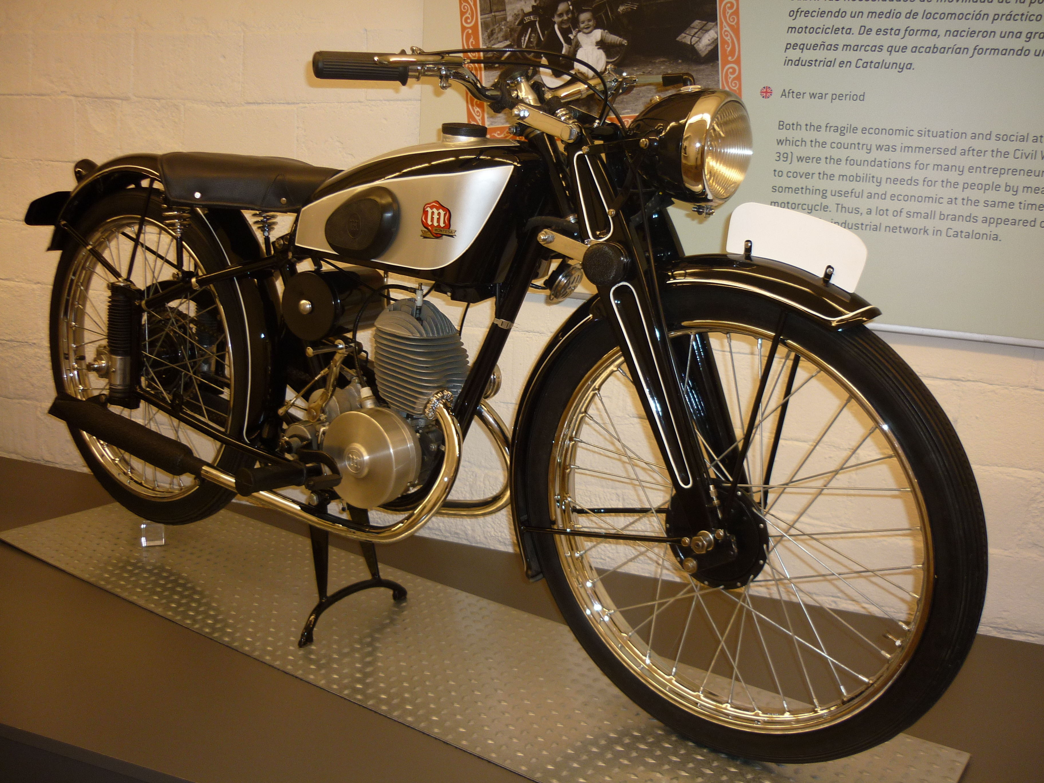 Montesa A-45 98cc, also known as Kettle due to shape of the cylinder. It was the first model made by Montesa (1945).Museu de la Moto de Barcelona (Catalonia).